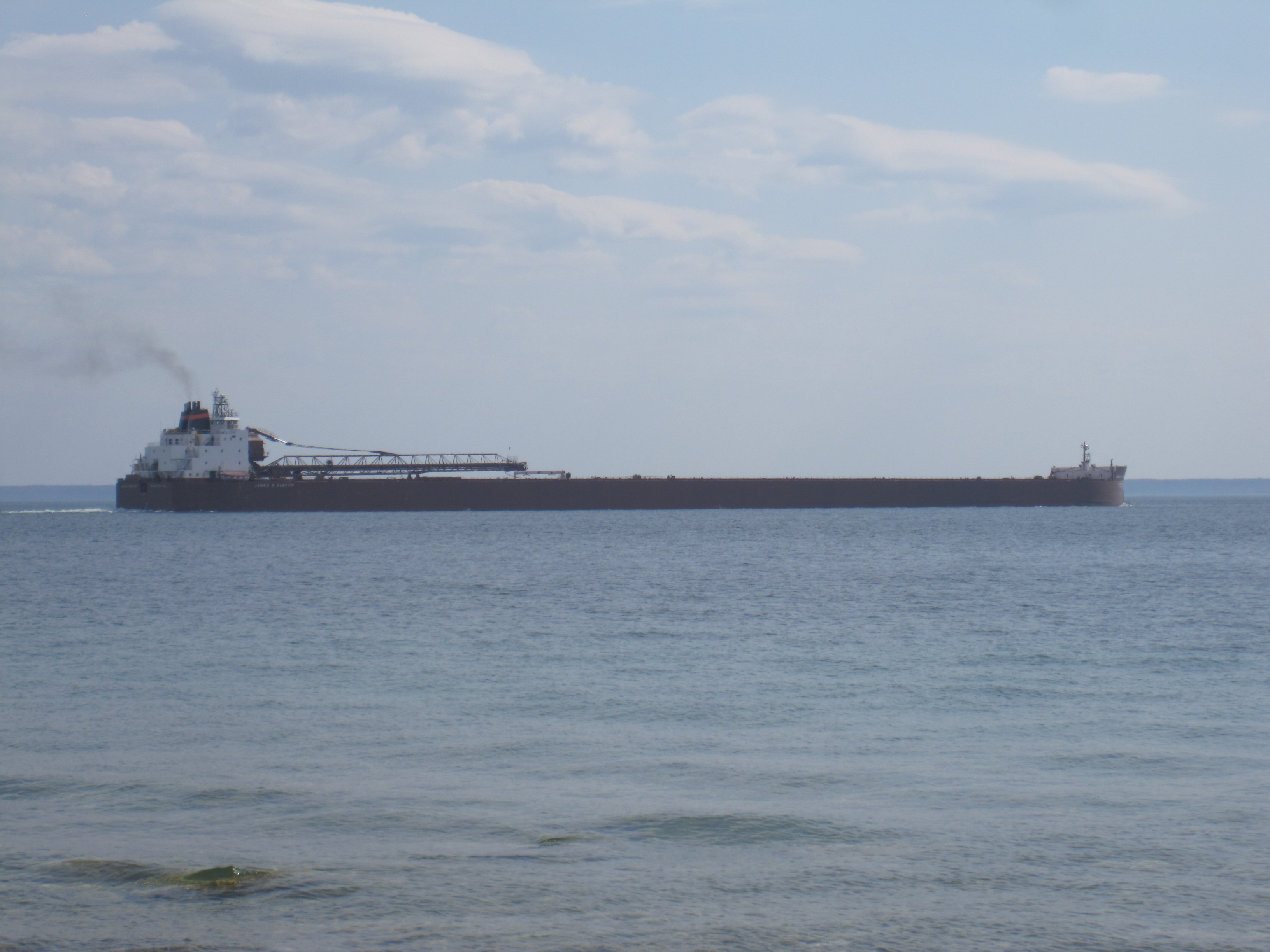 The 1004 foot lake freighter James R Barker crossing the straits at Mackinac, Michigan